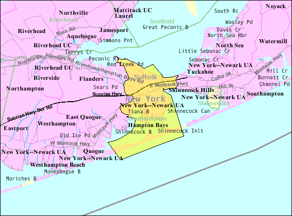 U.S. Census 2000 reference map for Hampton Bays .